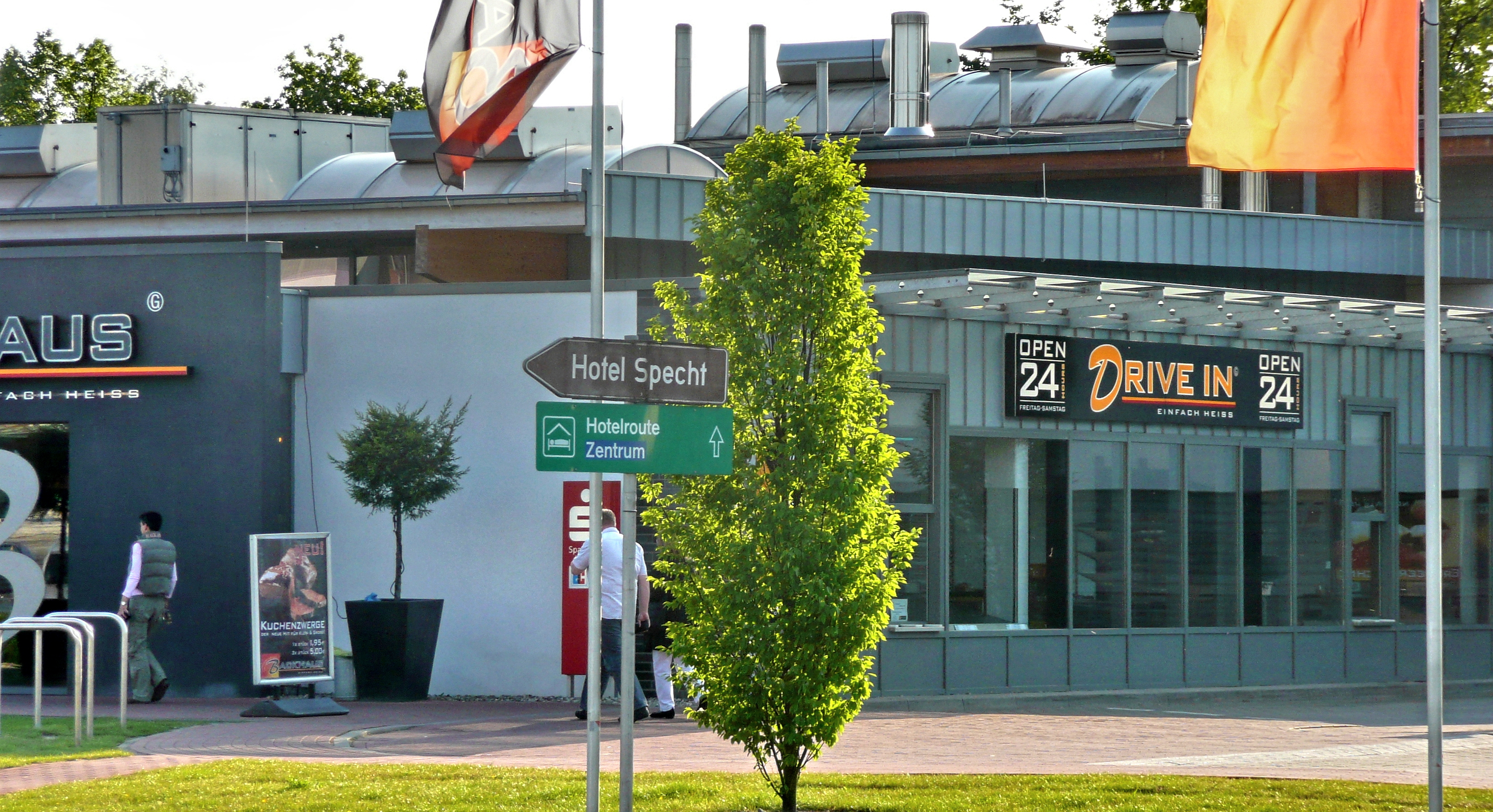 Drive-thru bakery in Witten/Germany